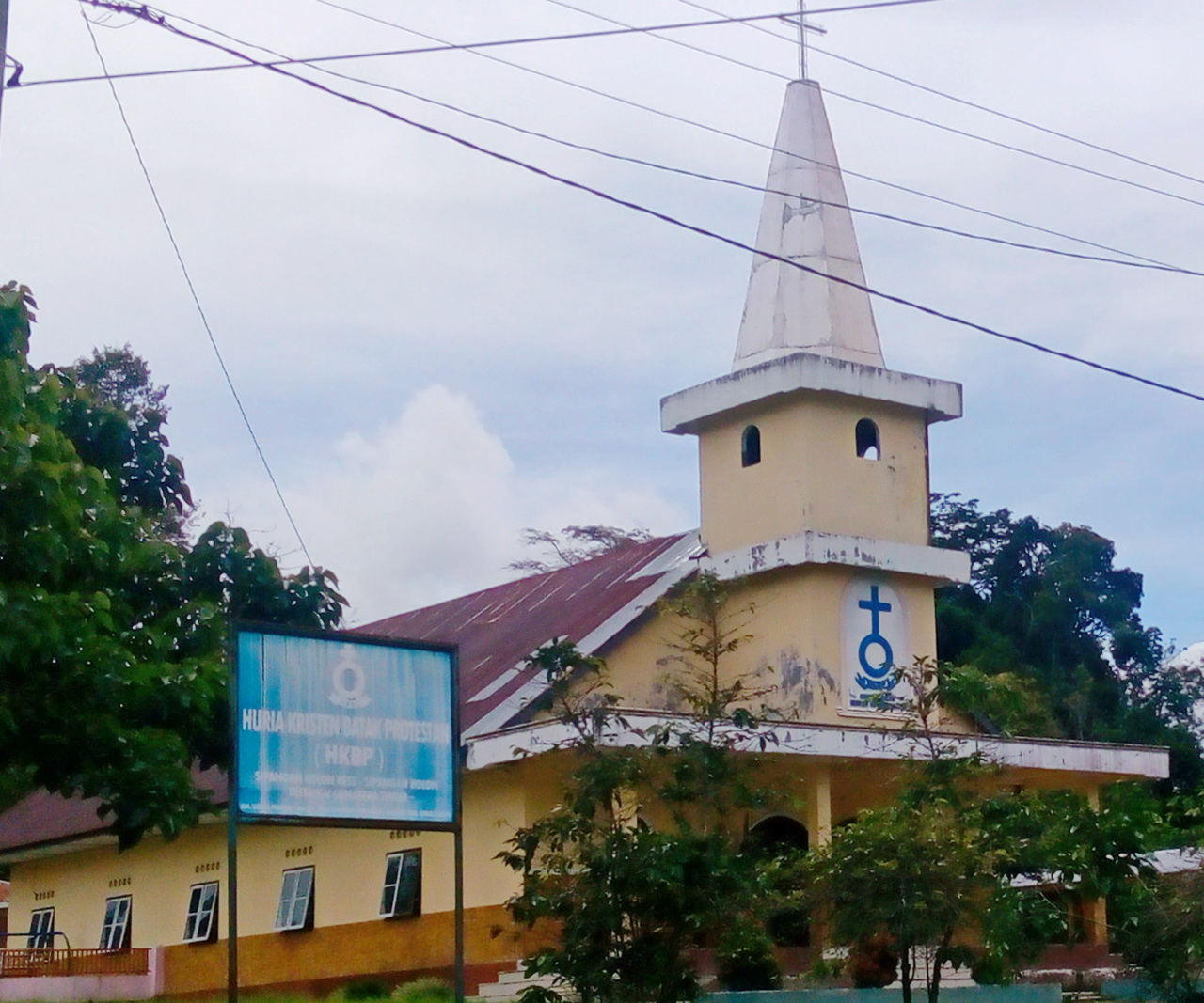 HKBP Sipangan Bolon, Church in Sipangan Bolon, Girsang Sipangan Bolon, Simalungun